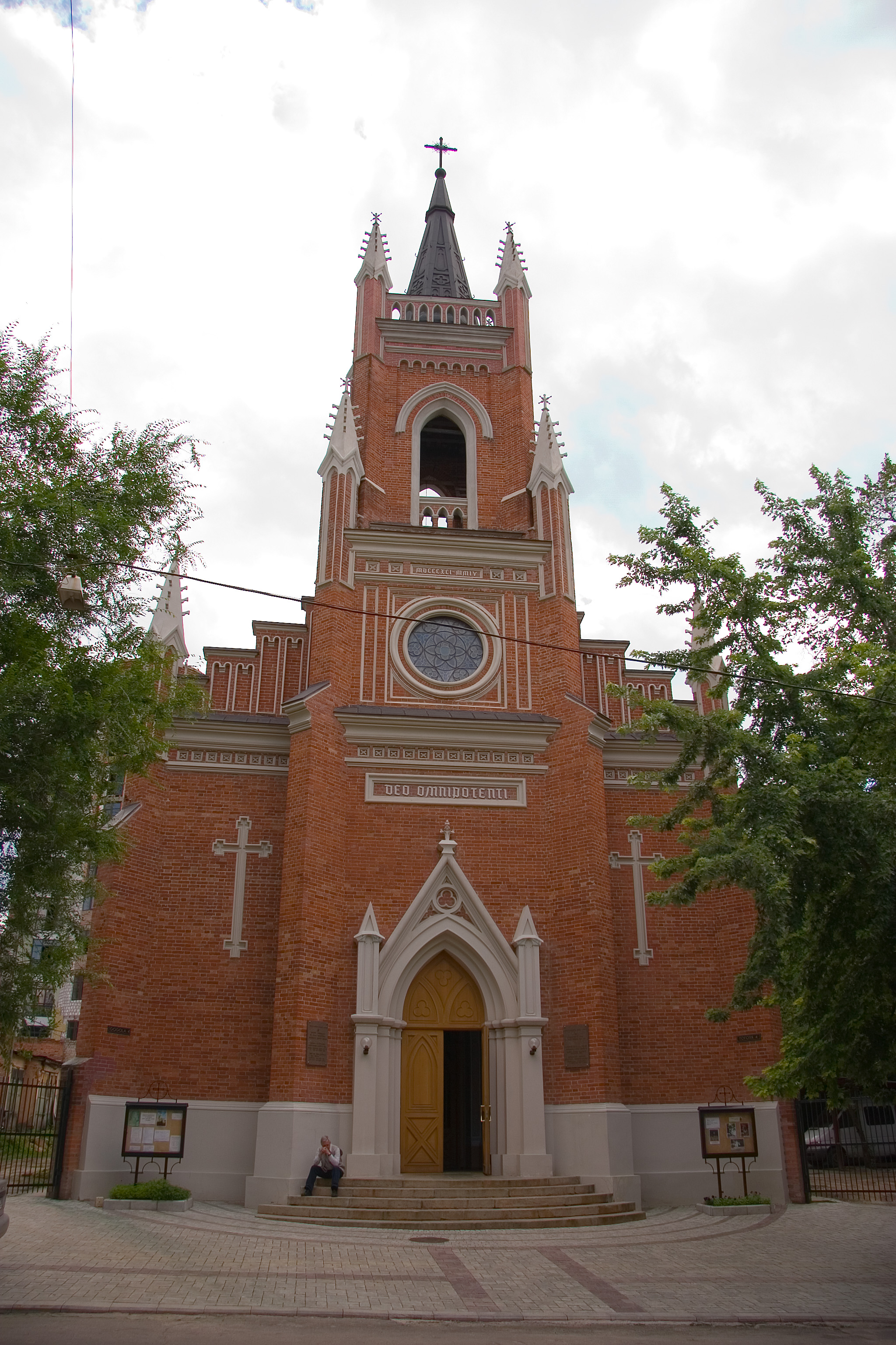 Catholic Maria kathedral church in Kharkov on Gogol Str.